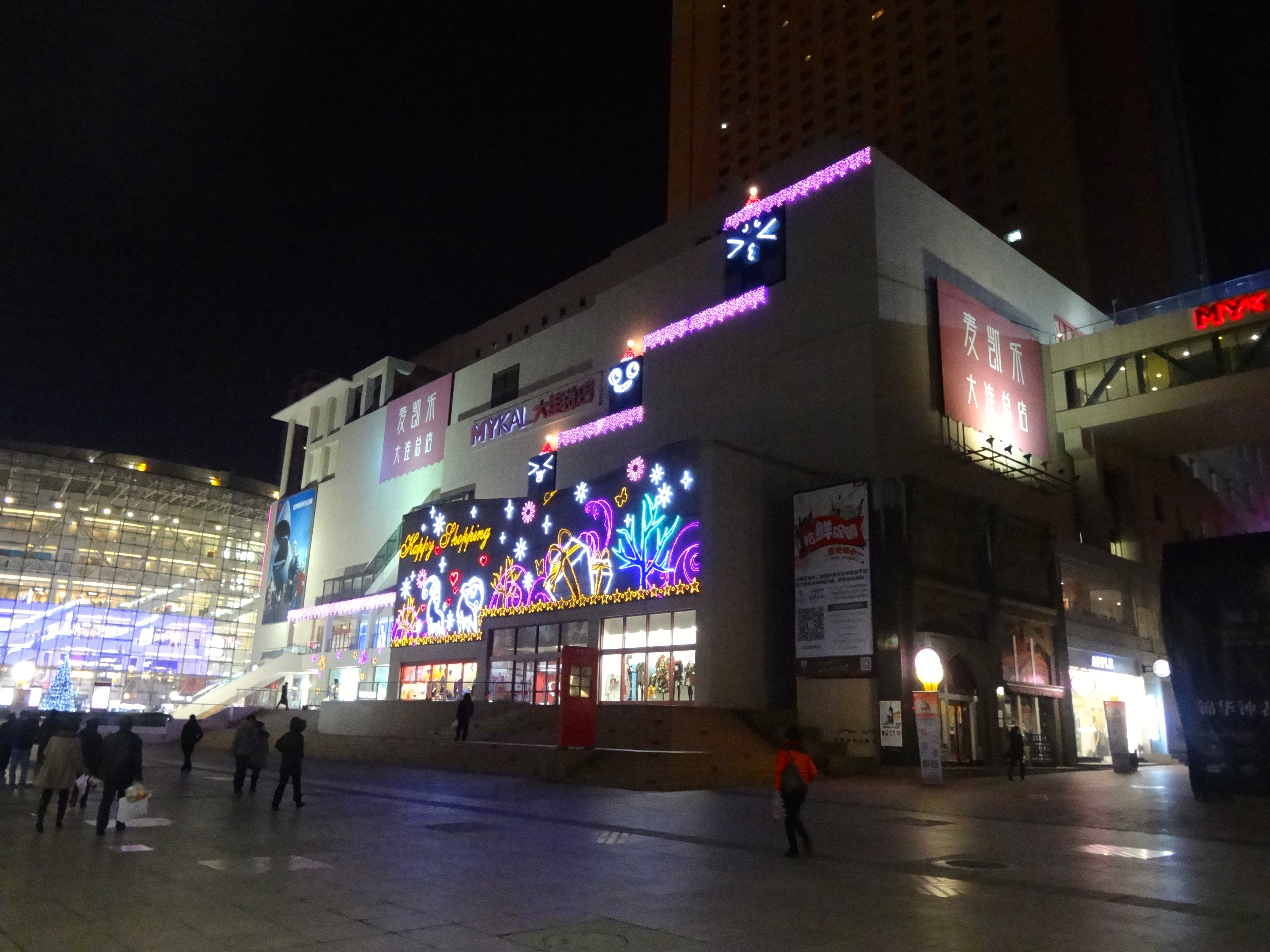 Qingniwaqiao Shopping District, Dalian, China